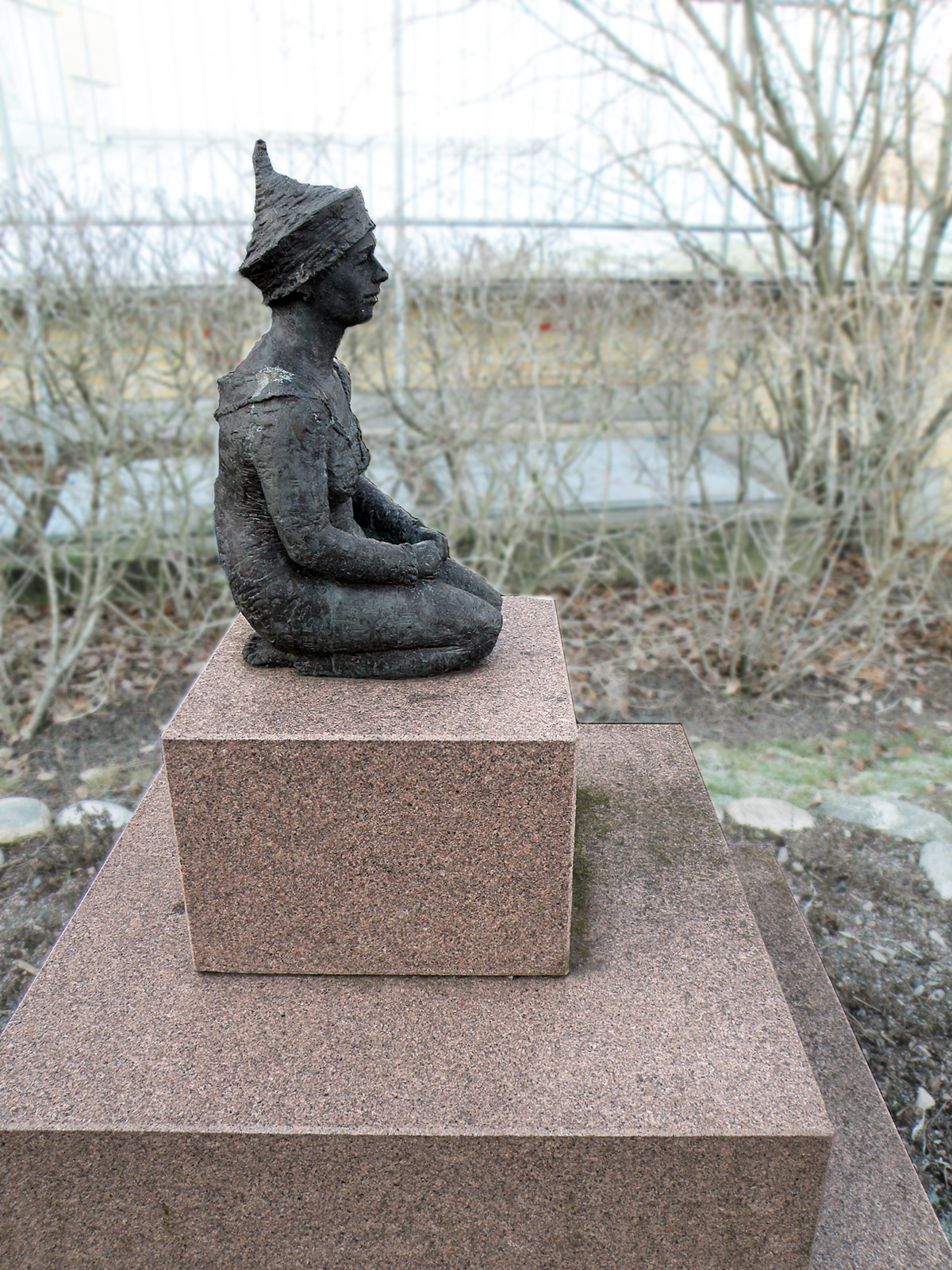 Stillness. Bronze sculpture by Britt Ignell, 2002. Dr. Allards gata, Guldheden, Gothenburg